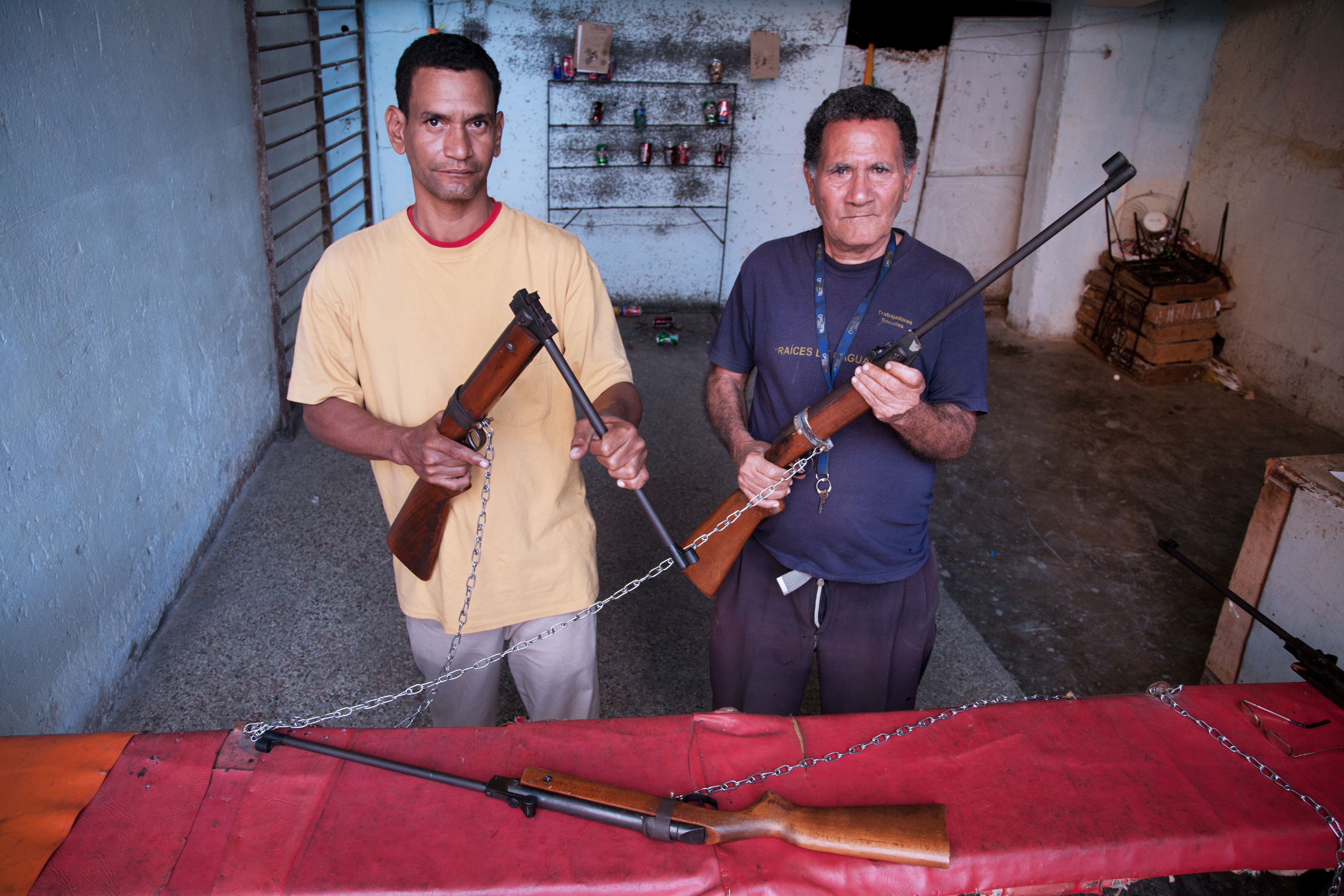 Air pump rifle shoting stall. Havana (La Habana), Cuba